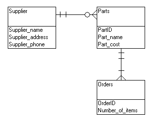 Example of a relational database, the orders-table contains a reference to parts, which contains a reference to the shippingtable.